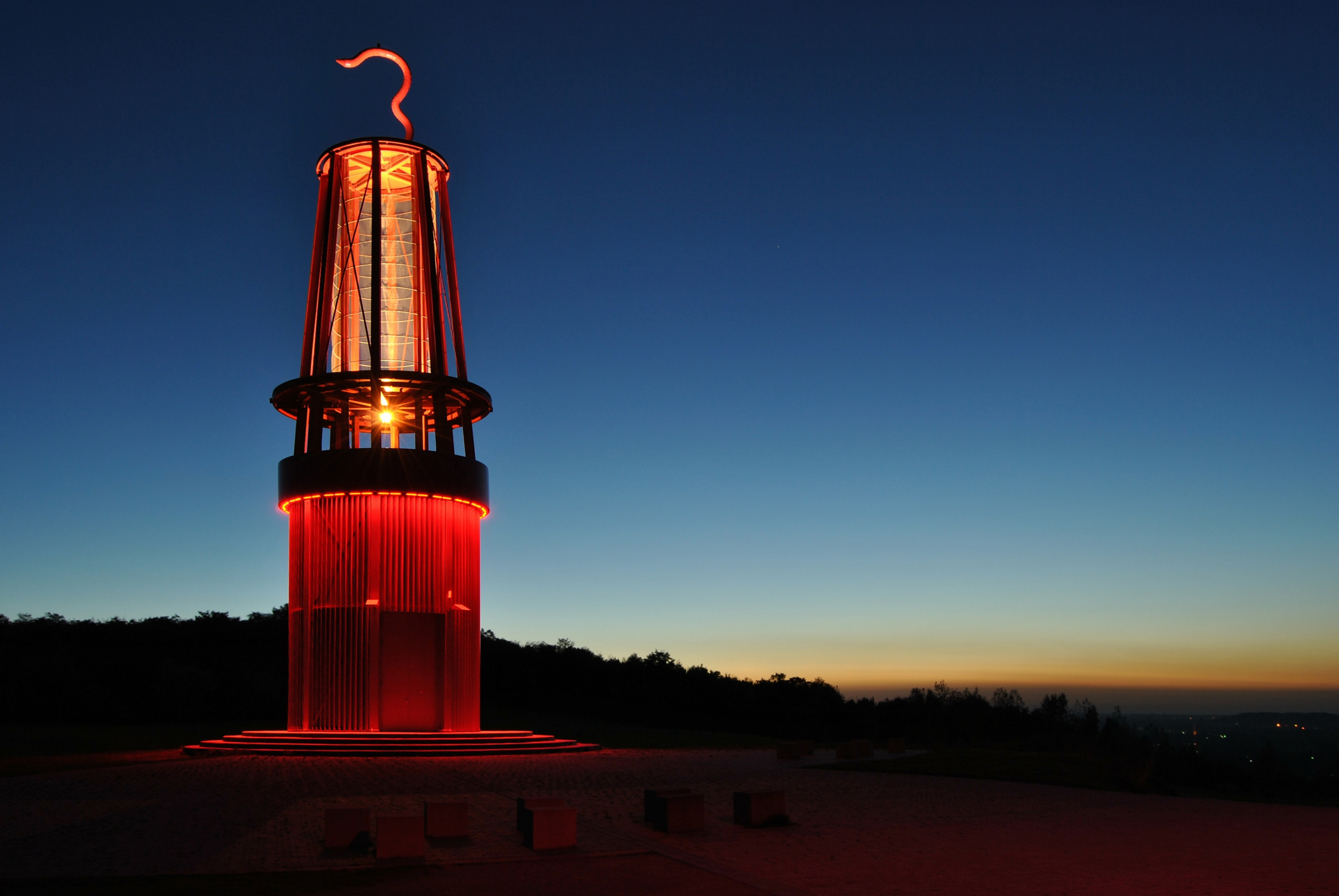 The mining lamp monument (30 meters high, made by Otto Piene) on the Halde Rheinpreußen (Moers, North-Rhine Westfalia, Germany) during the blue hour, on the right the sunset.